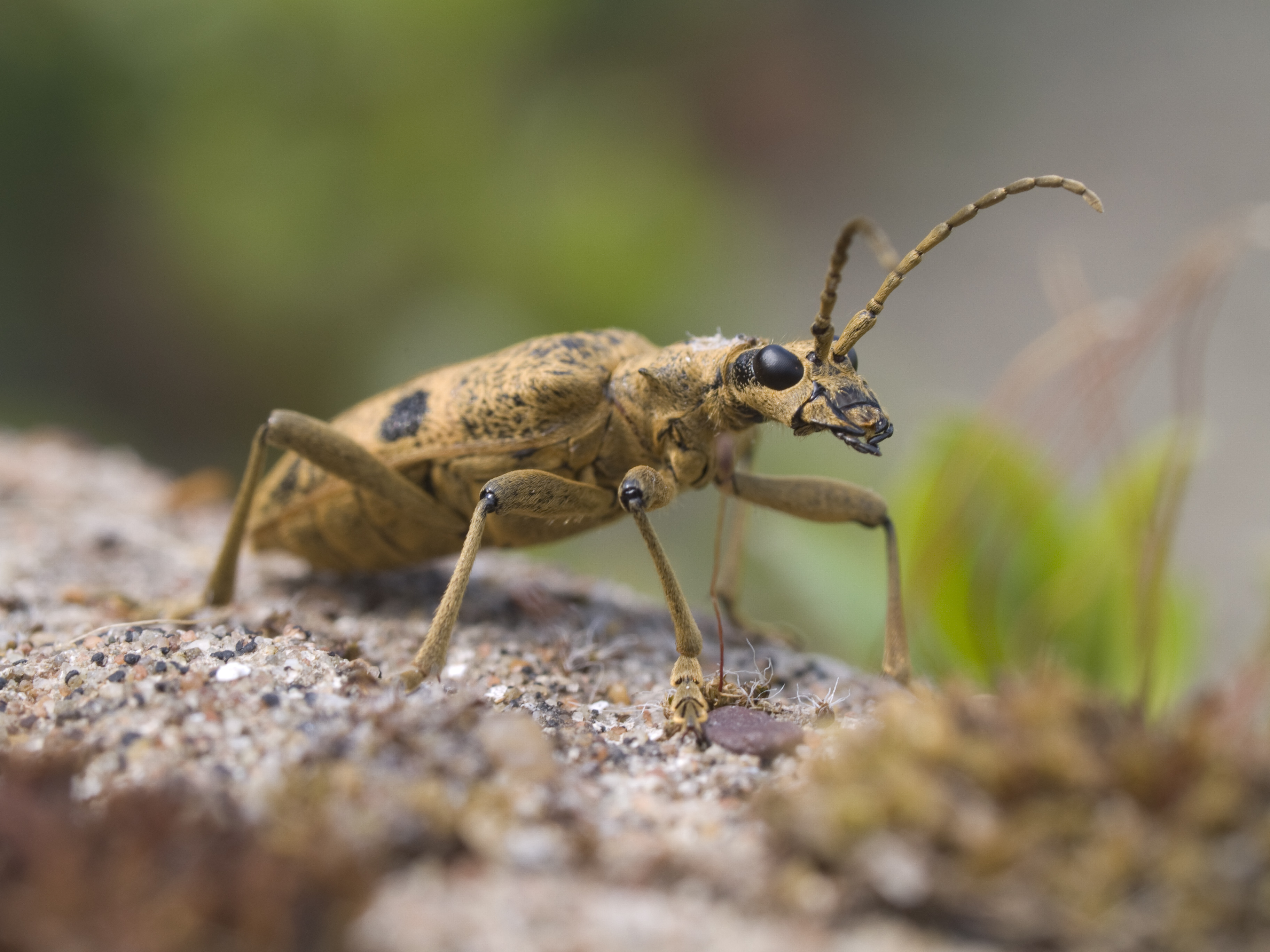 Macro of Longhorn Beetle - Rhagium mordax